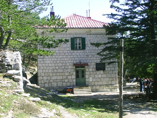 Mountain home Umberto Girometta, Croatia